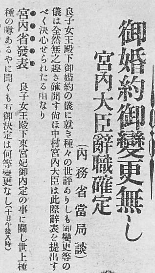 11 February 1921 issue of Tokyo Asahi Shimbun